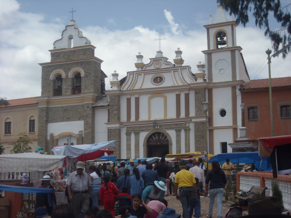 Templo de San José ubicado en la Plaza Esteban Arze (Muqu Pata), es una joya de la arquitectura religiosa, perteneciente al Convento de los padres franciscanos.